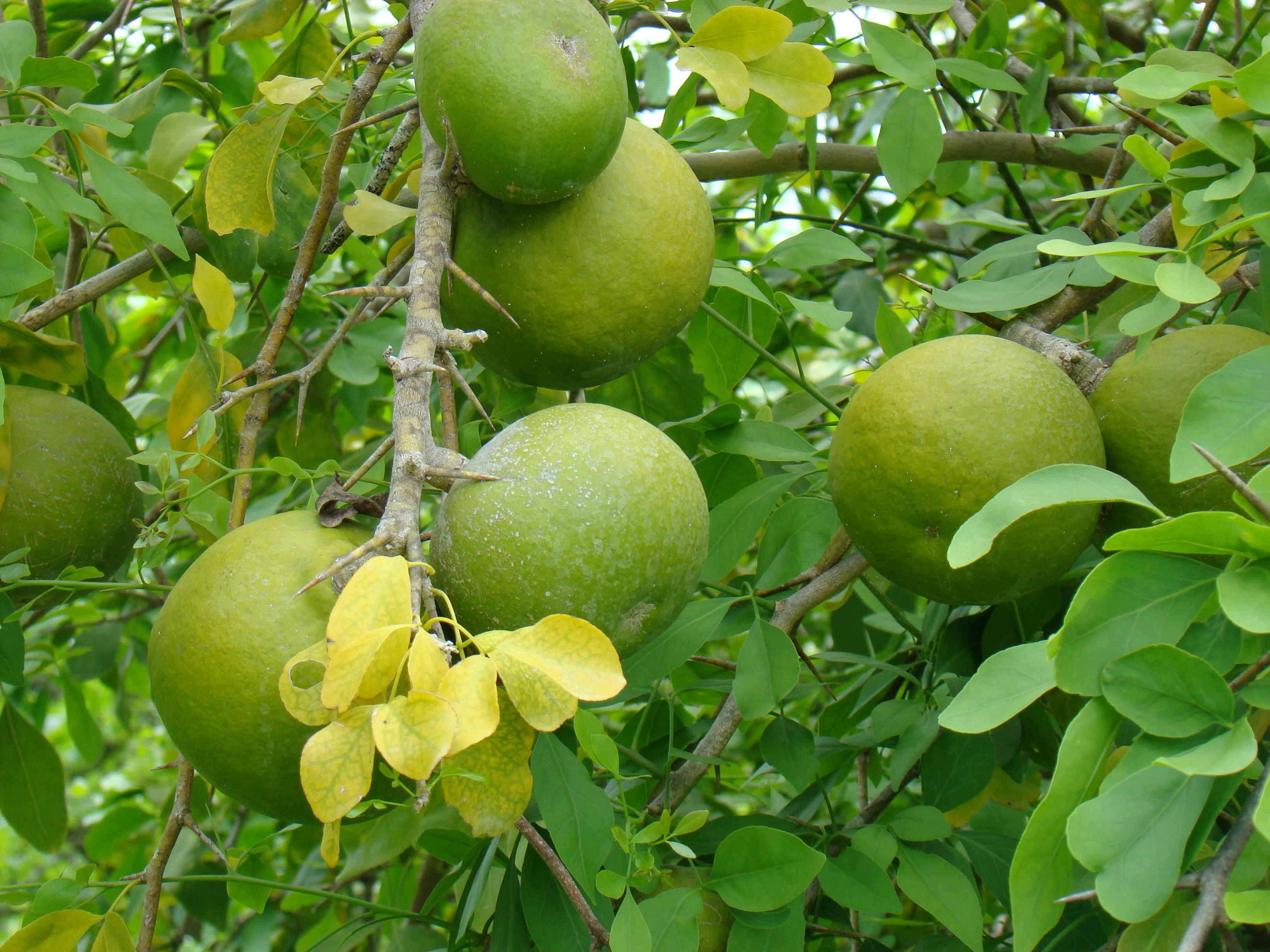 Close-up of a cluster of large but unripe fruits hanging from a Bael (Aegle marmelos / Rutaceae) tree in the Fruit And Spice Park, Homestead, Florida. Note the long, deadly thorns.